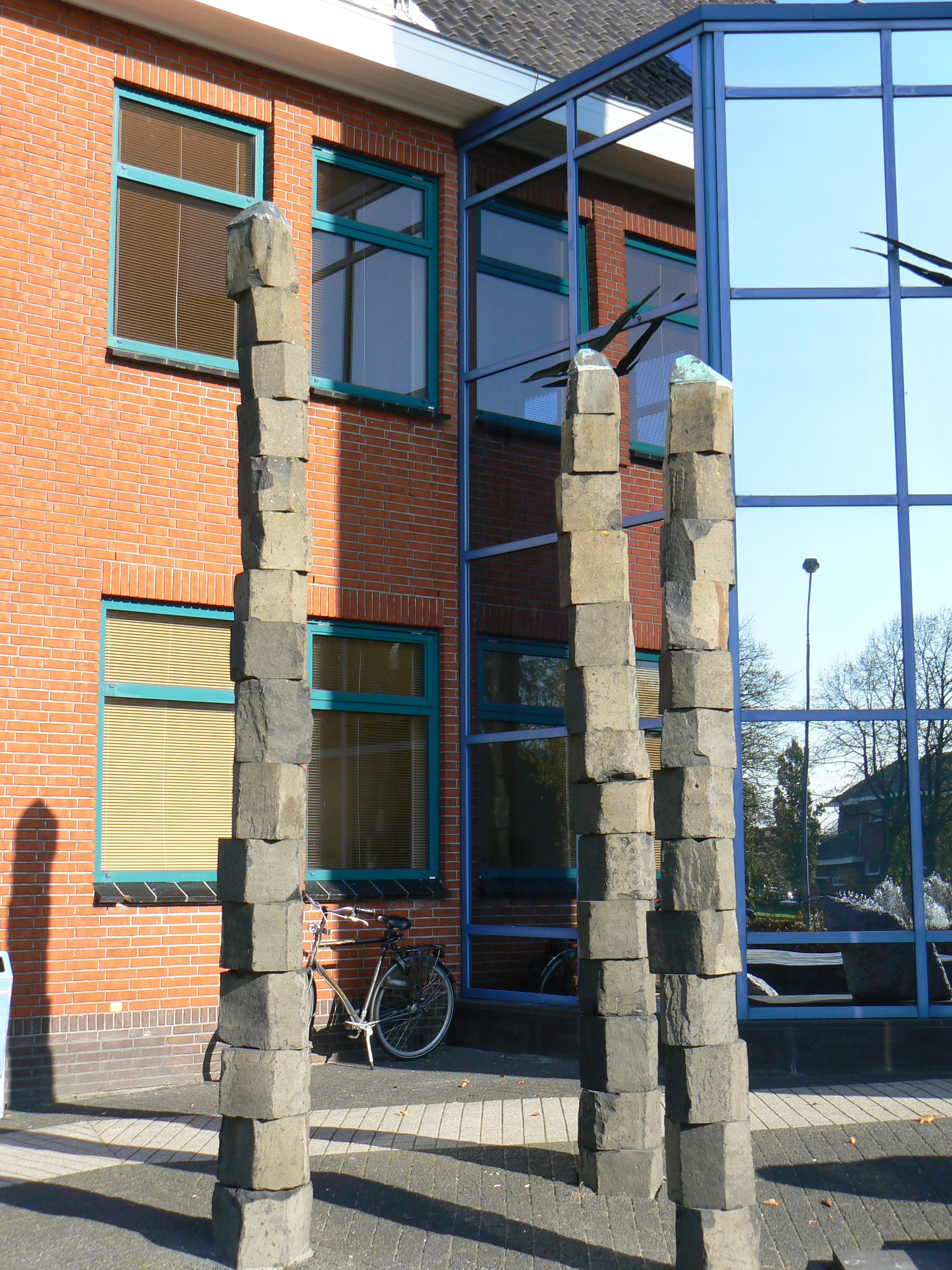 sculpture Seesight 1988 by Hans Mes in Delfzijl/The Netherlands